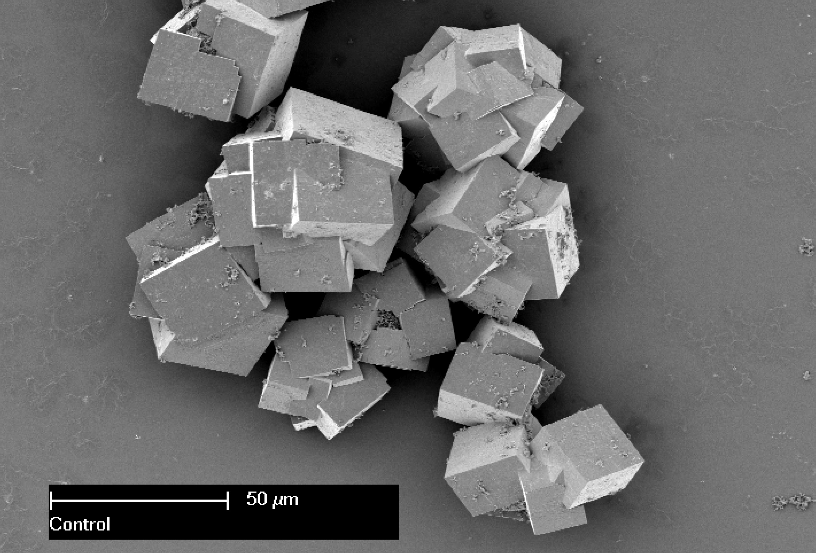 Scientists at CSIRO have developed a simple but effective technique for growing and adding value to an new group of smart materials which could be used in areas such as optical sensing and drug storage and delivery. The researchers have developed a way to control the growth, and provide additional functionality, to a family of smart materials known as metal-organic frameworks, or MOFs. MOFs consist of well-ordered ultra-porous crystals which form multi-dimensional structures with enormous surface areas. One gram of the material can have the surface area of more than three football fields. Their spacious pores provide MOFs with the potential to be used as 'sponges' for storing gases such as hydrogen, carbon dioxide or natural gas. They could also be used as nano-sized sieves to purify gases or liquids, for catalysis, or for the targeted transport of drugs in the body.